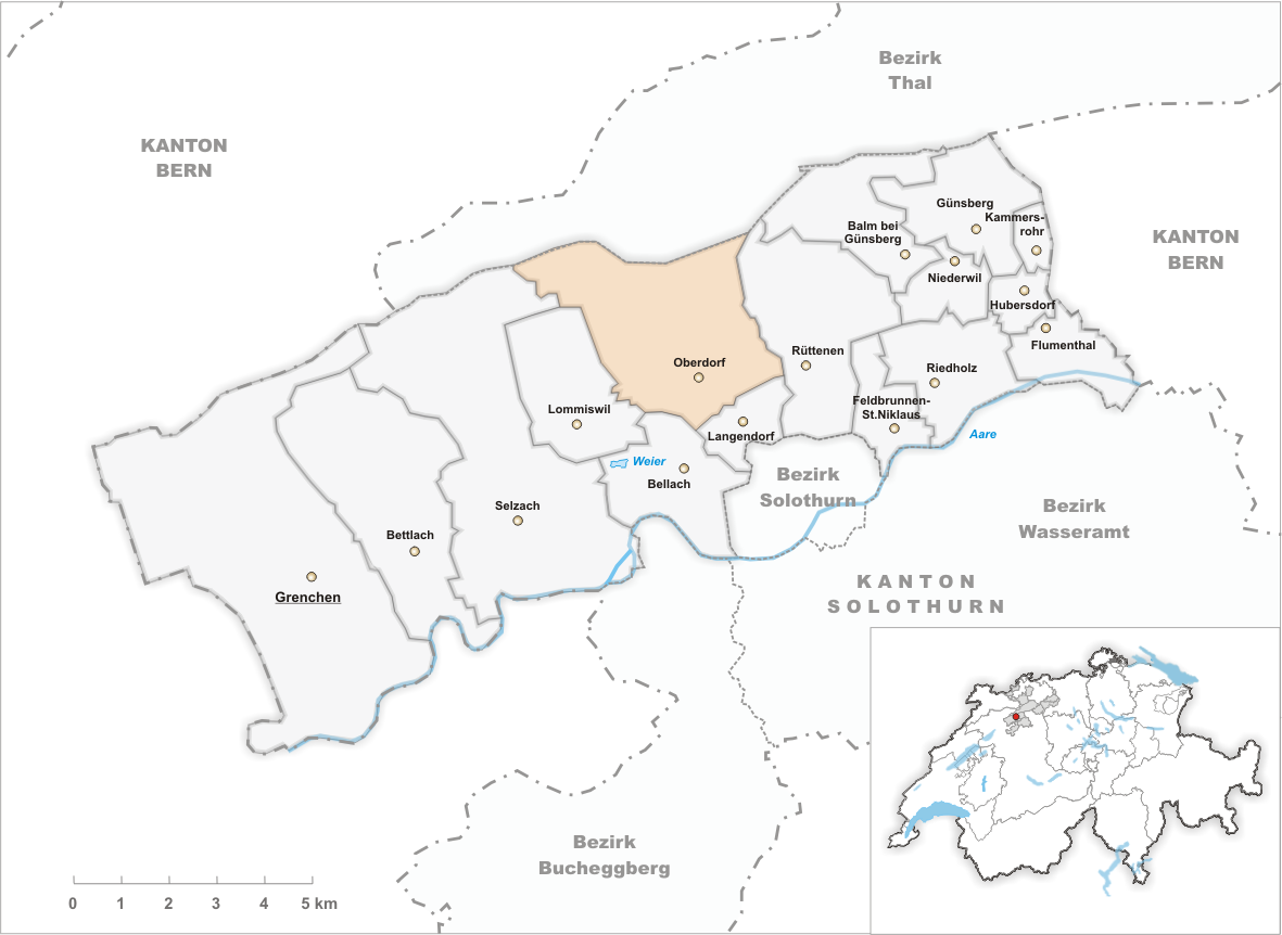 Municipality Oberdorf